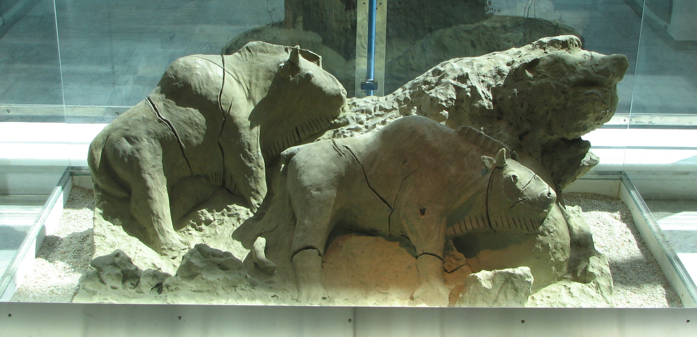 A model of the famous Tuc d'Audoubert sculpture of bison bull and cow in the Brno museum Anthropos.